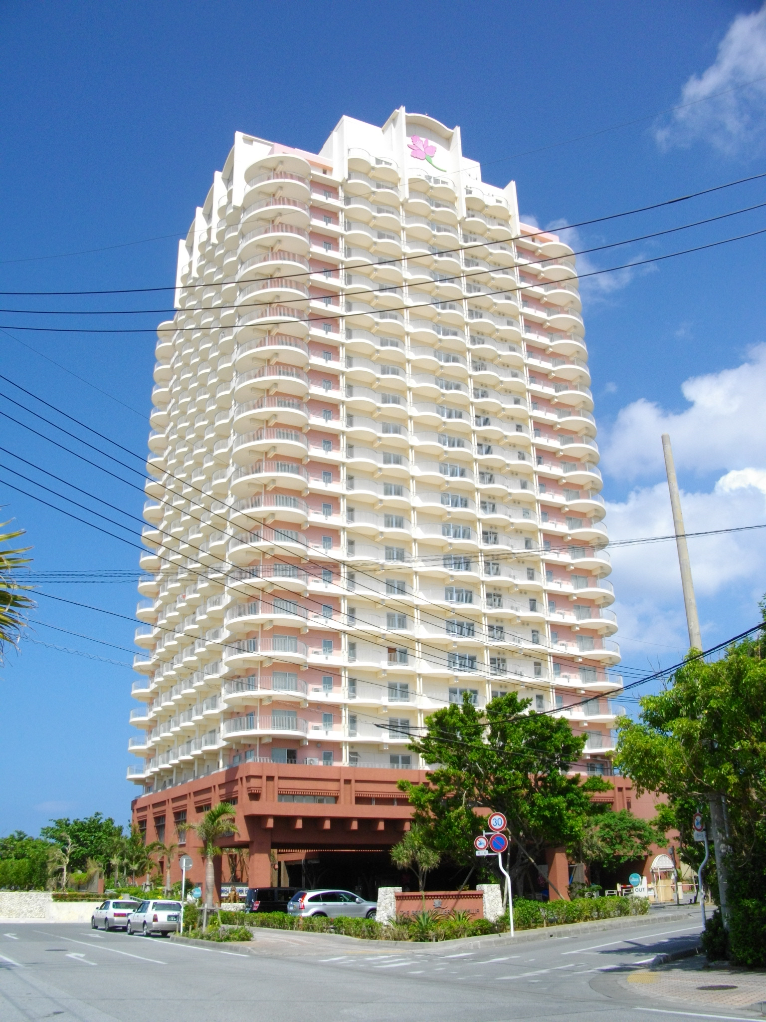 The Beach Tower Okinawa